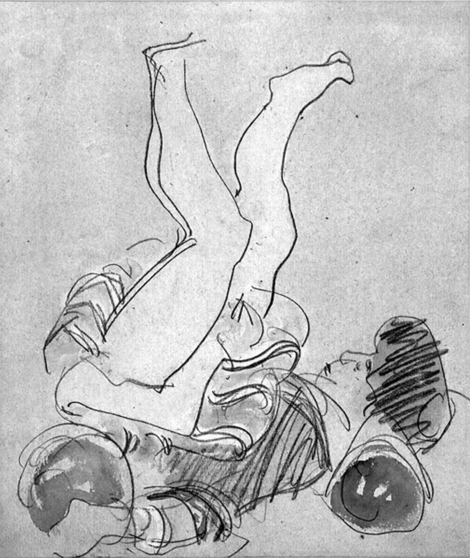 Sketch for a sculpture